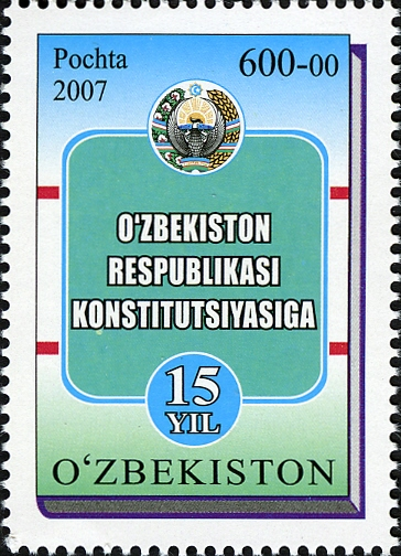 Stamps of Uzbekistan, 2007